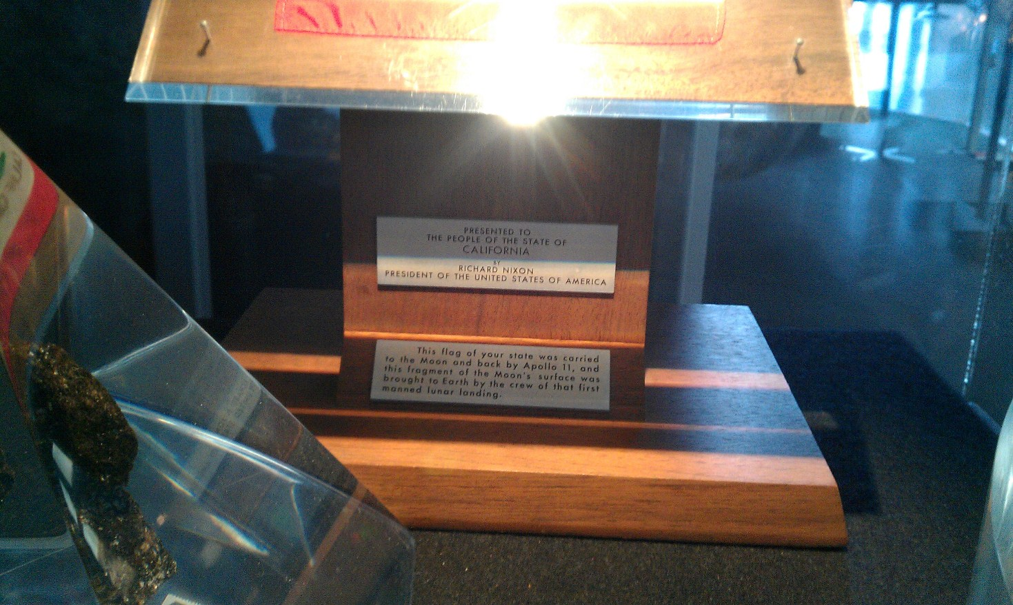 California Goodwill moon rock from Apollo 11. Repository: San Diego Air and Space Museum Archive